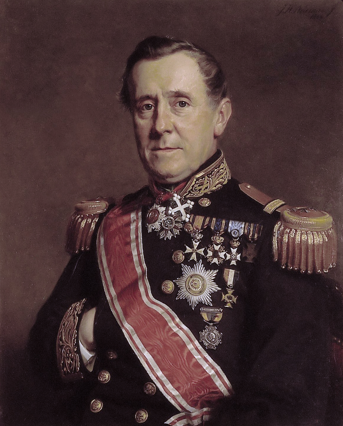 Gerhardus Fabius (1806-1888) oil on canvas signed u.r.: JH Neuman f 1864